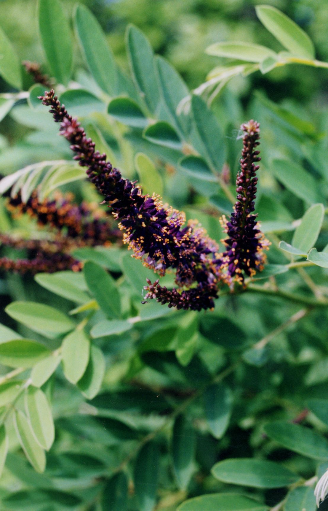 Amorpha fruiticosa (desert false indigo); IA United States,, Scott Co., Davenport, Nahant Marsh.